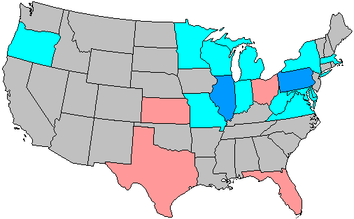 Summary of party change of U.S. house seats in the 1954 House election. Stripes indicate a tie between the gains of two or more parties. Legend: 6+ Democratic seat pickup 3-5 Democratic seat pickup 1-2 Democratic seat pickup 1-2 Republican seat pickup 3-5 Republican seat pickup 6+ Republican seat pickup Note: years ending in 2 may have inconsistent results due to redistricting.